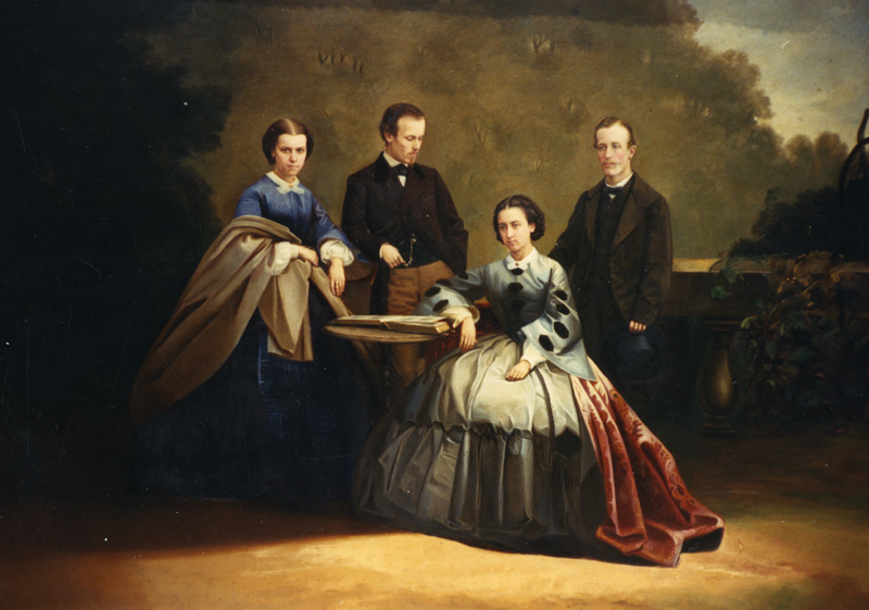 Self-portrait of D. Teresa de Saldanha with her family (D. António and D. José de Saldanha Oliveira e Sousa and D. Maria Isabel d'Anunciação).